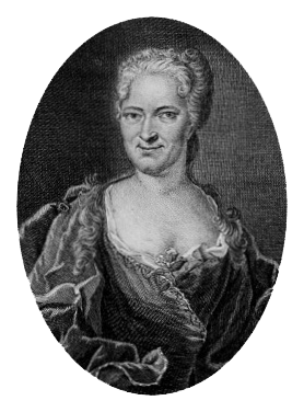 Written mention deleted the image : Christiana Mariana von Ziegler, geborhne Romanus